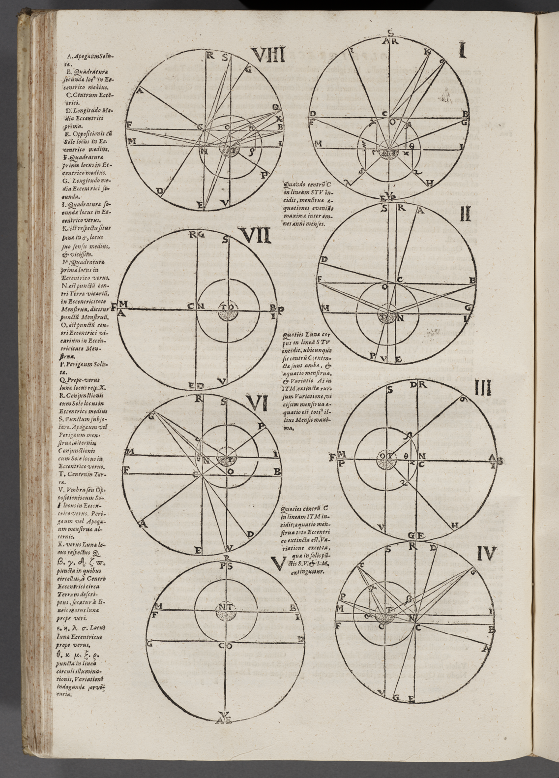 Discussion of the computation of planetary orbits in Kepler's Rudolphine Tables (1627)